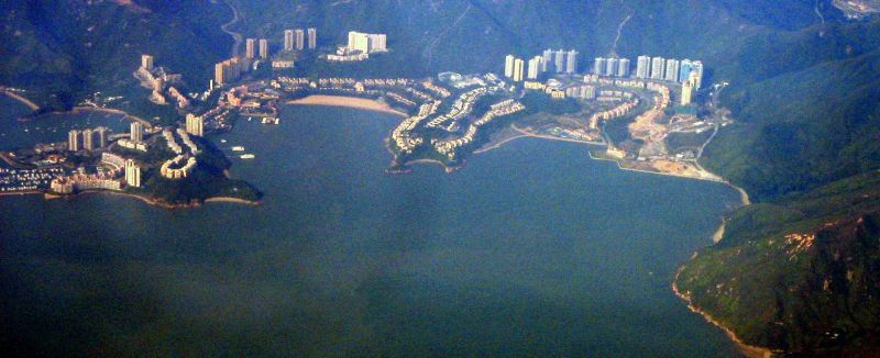 Discovery Bay from the air, photo taken from an aeroplane.